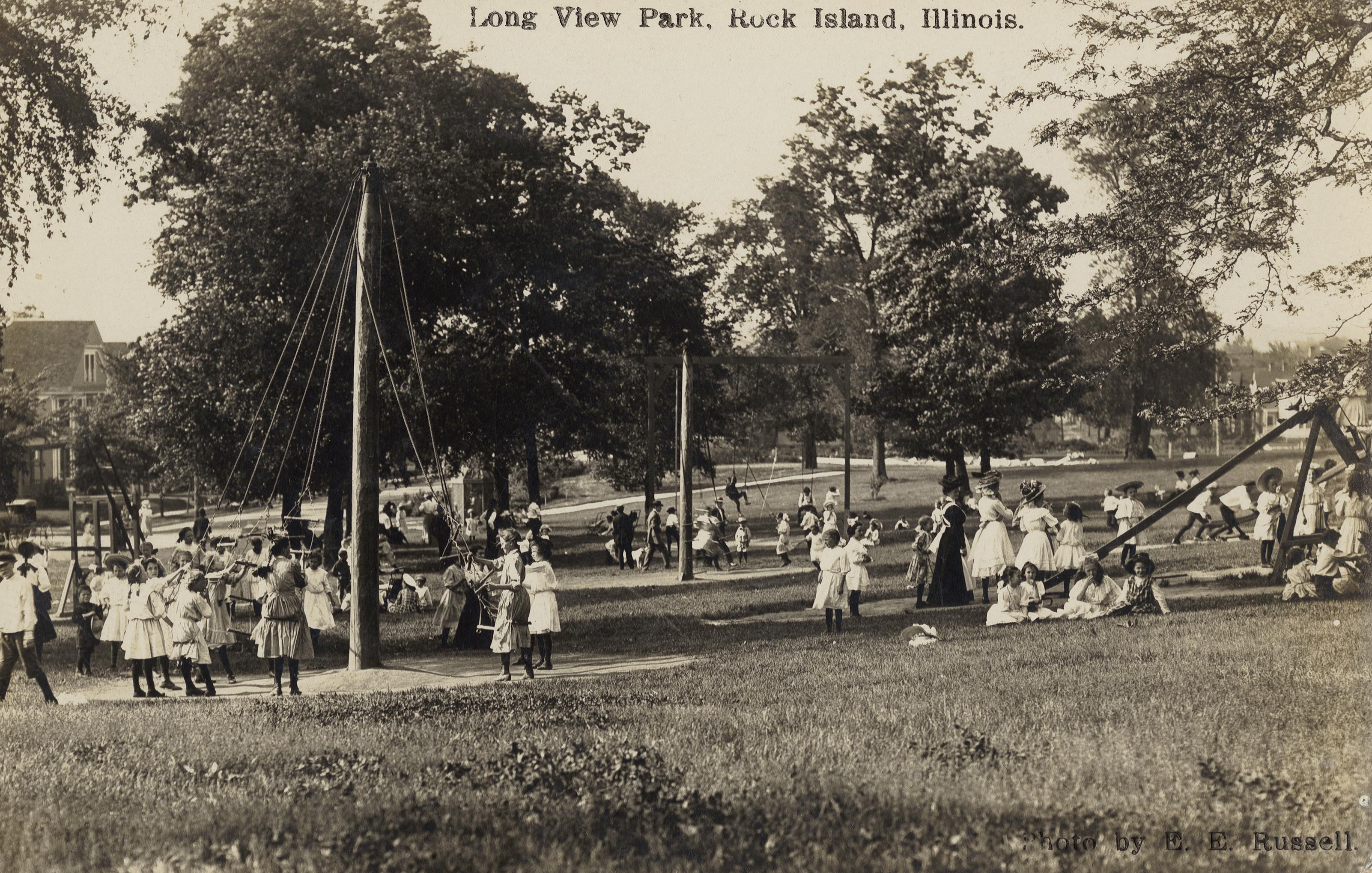 From the University of Maryland Digital Collections: "A postcard featuring a photograph of May Day Celebrations in Long View Park, Rock Island, Illinois, circa 1907-1914."